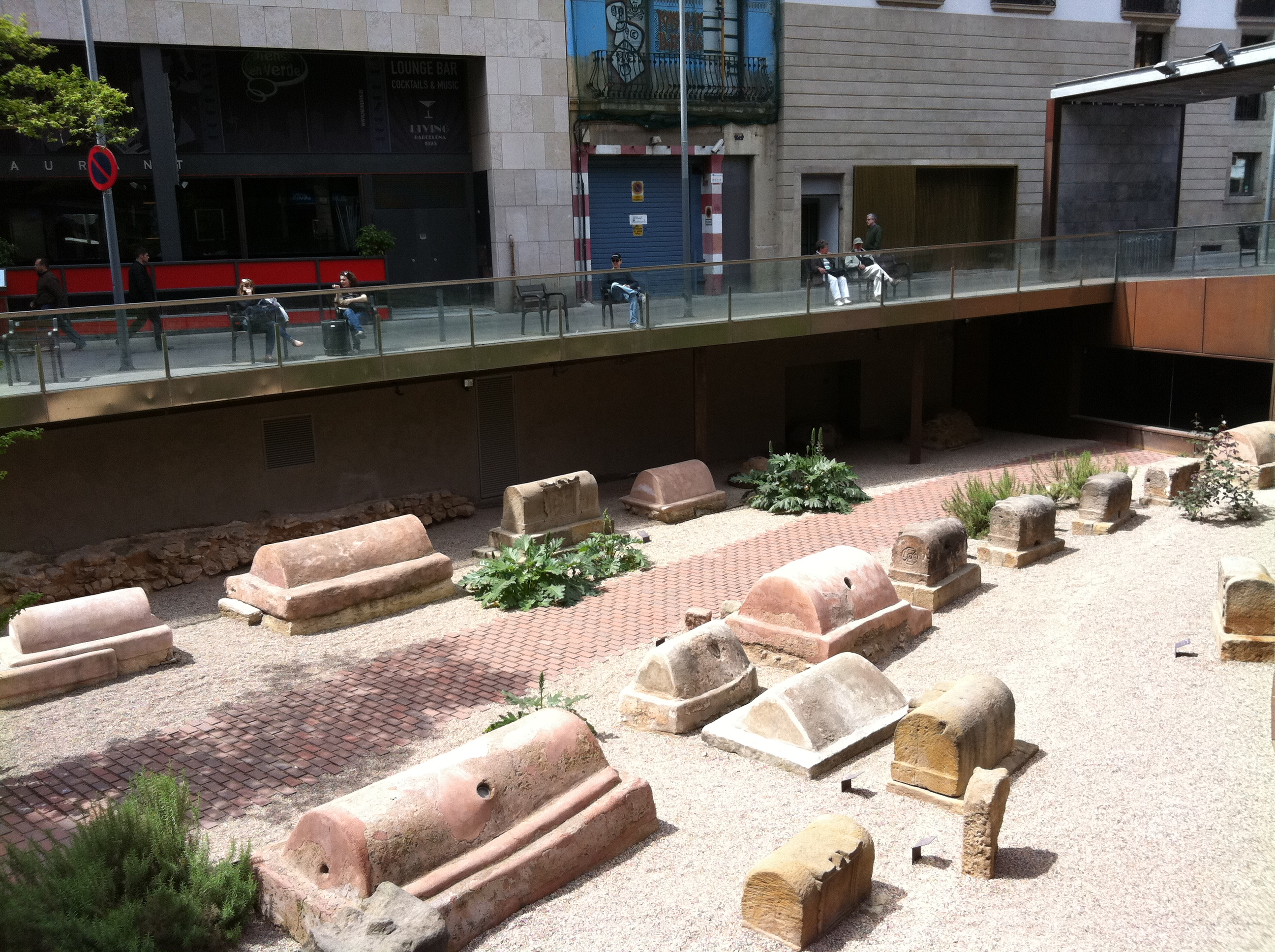 Barcino ancient Roman burial route at Plaça Villa de Madrid